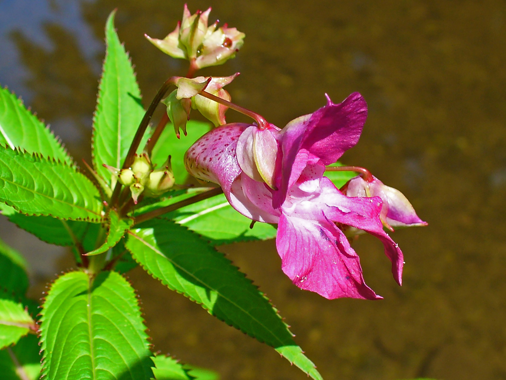 Impatiens glandulifera, Balsaminaceae, Himalayan Balsam, Kiss-me-on-the-mountain, Indian Balsam, flower; Karlsruhe, Germany.